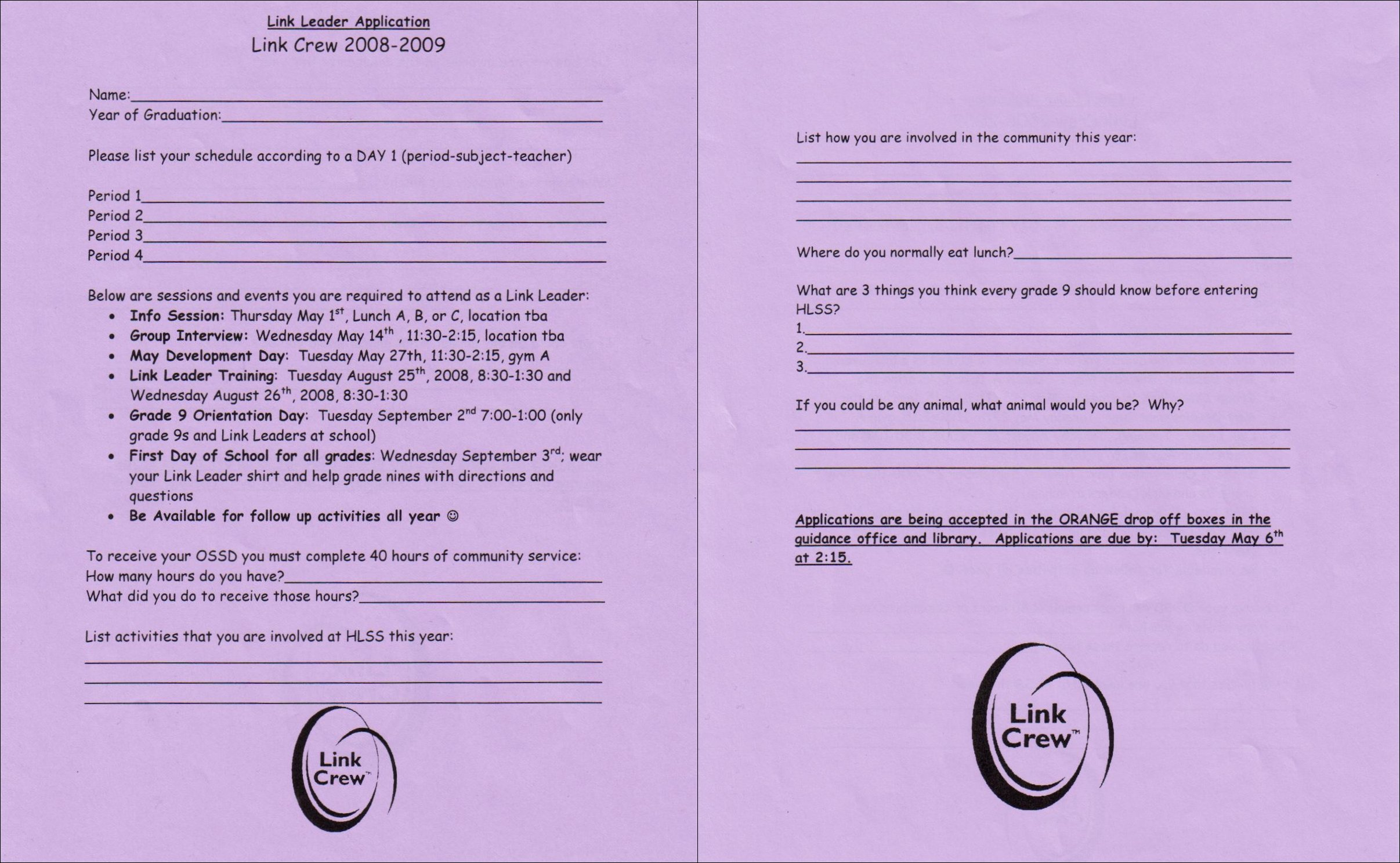 A Link Leader Application form